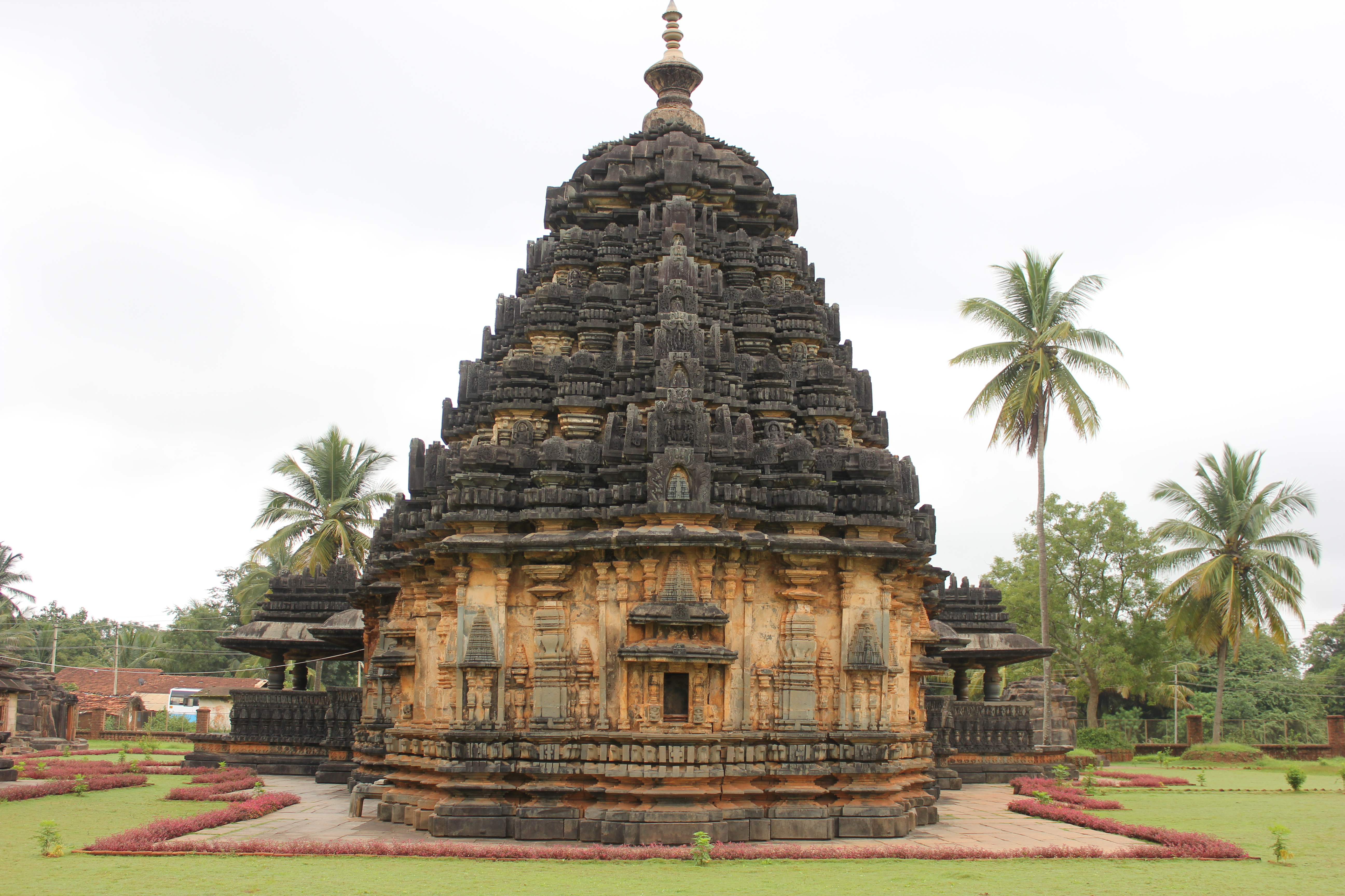 This photograph was taken by me at the Kaitabhesvara (also spelt Kaitabheshvara or Kaitabheshwara) temple in Kubatur (also spelt Kubattur or called Kotipura) in the Shivamogga district (Shimoga), Karnataka state, India. The temple was built around 1100 AD during the reign of Hoysala King Vinayaditya, a feudatory of the Western Chalukya emperor Vikramaditya VI. The architectural style is very Chalukyan.